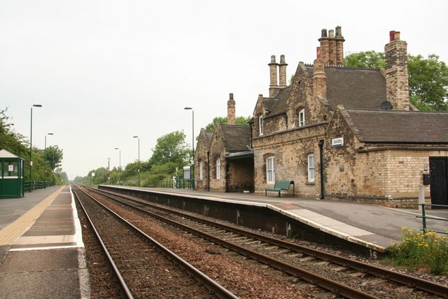 Saxilby railway station Original description: Saxilby Station Built c1850, now un-manned and converted to offices